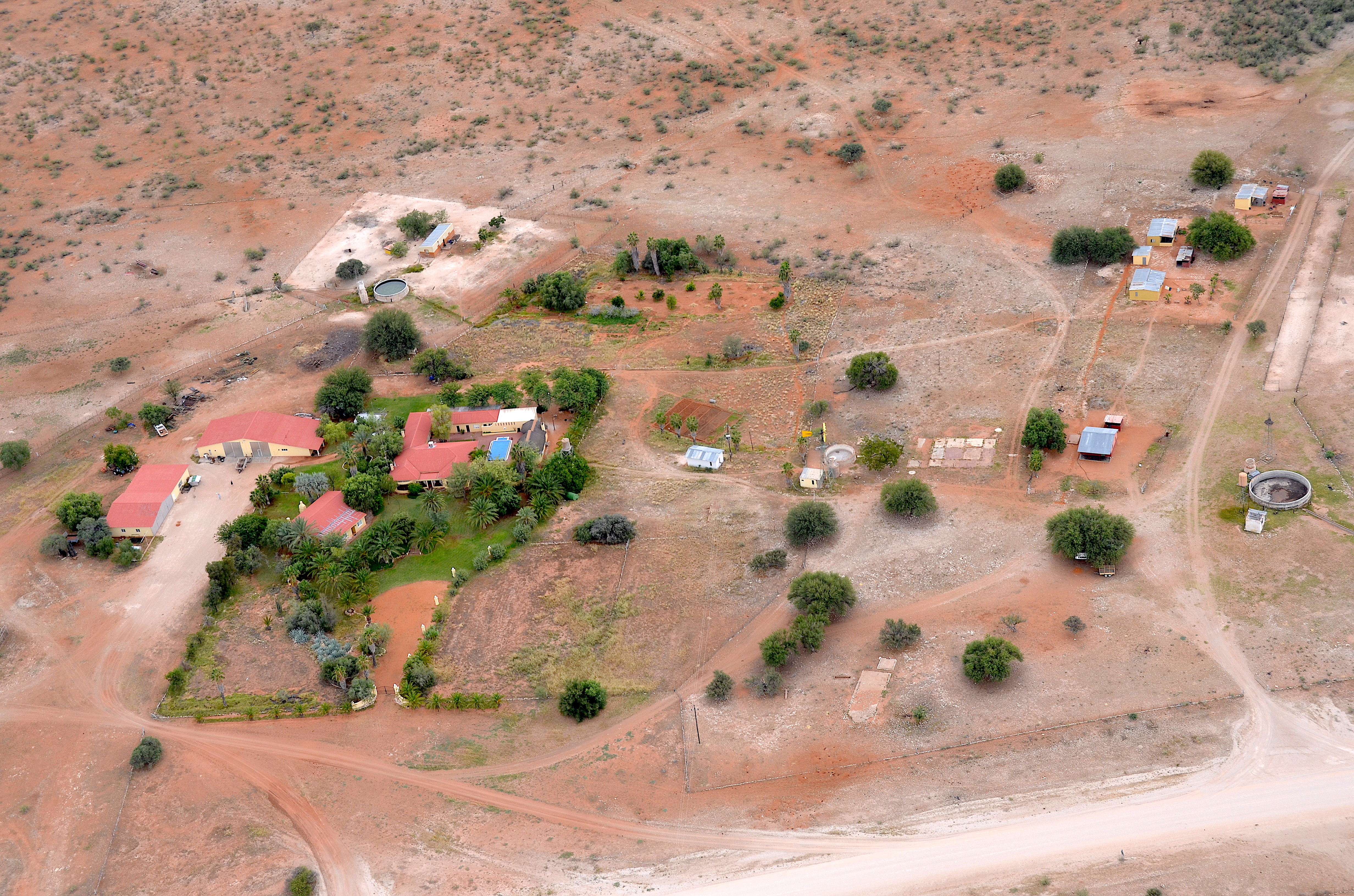 Farm Langverwacht in Namibia (2017)